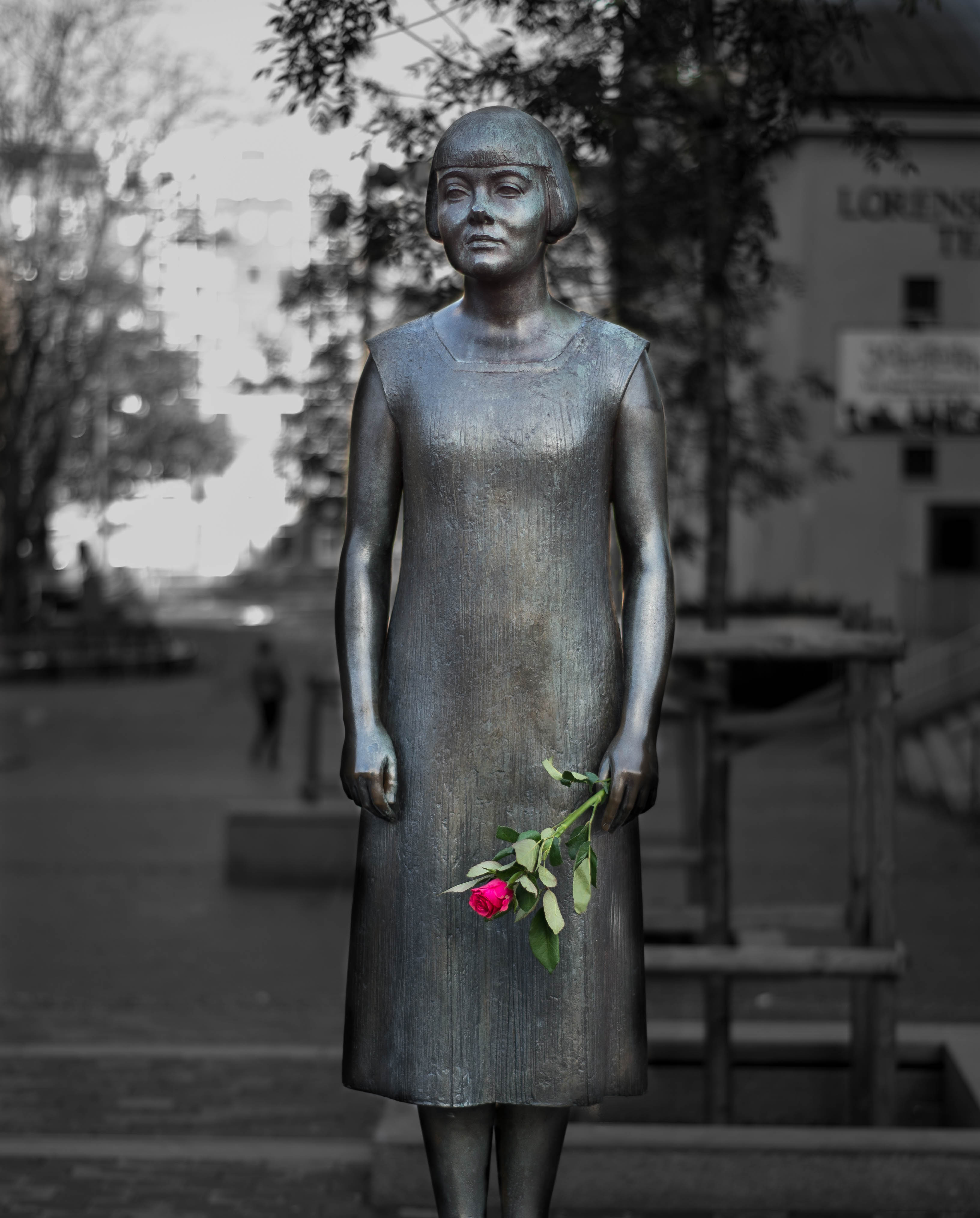 The statue of Karin Boye outside Gothenburg City Library near Götaplatsen.